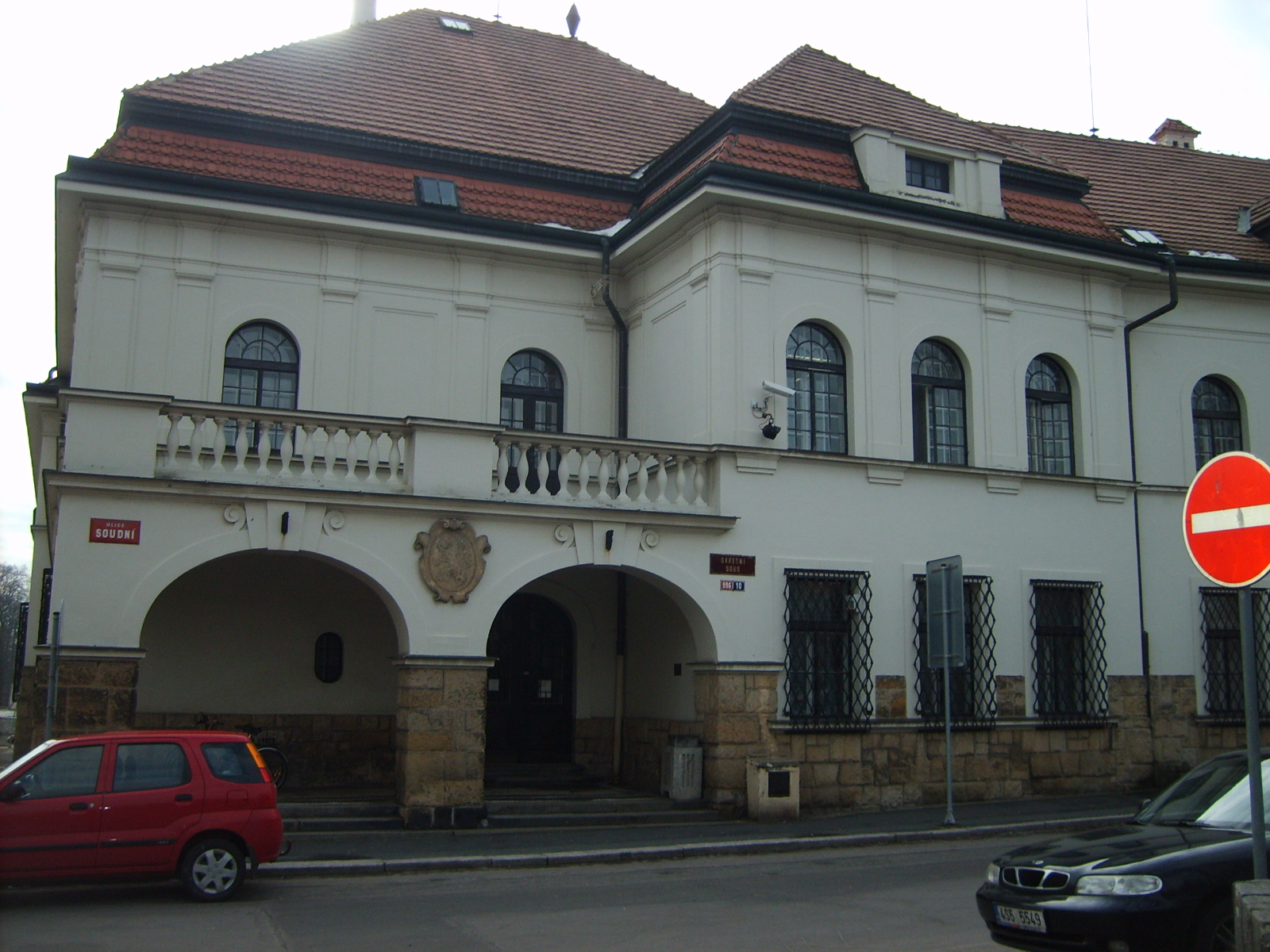 County courthouse of Nymburk county in Nymburk, Czech Republic